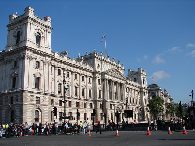 Treasury Buildings The offices of H.M. Treasury in Whitehall.